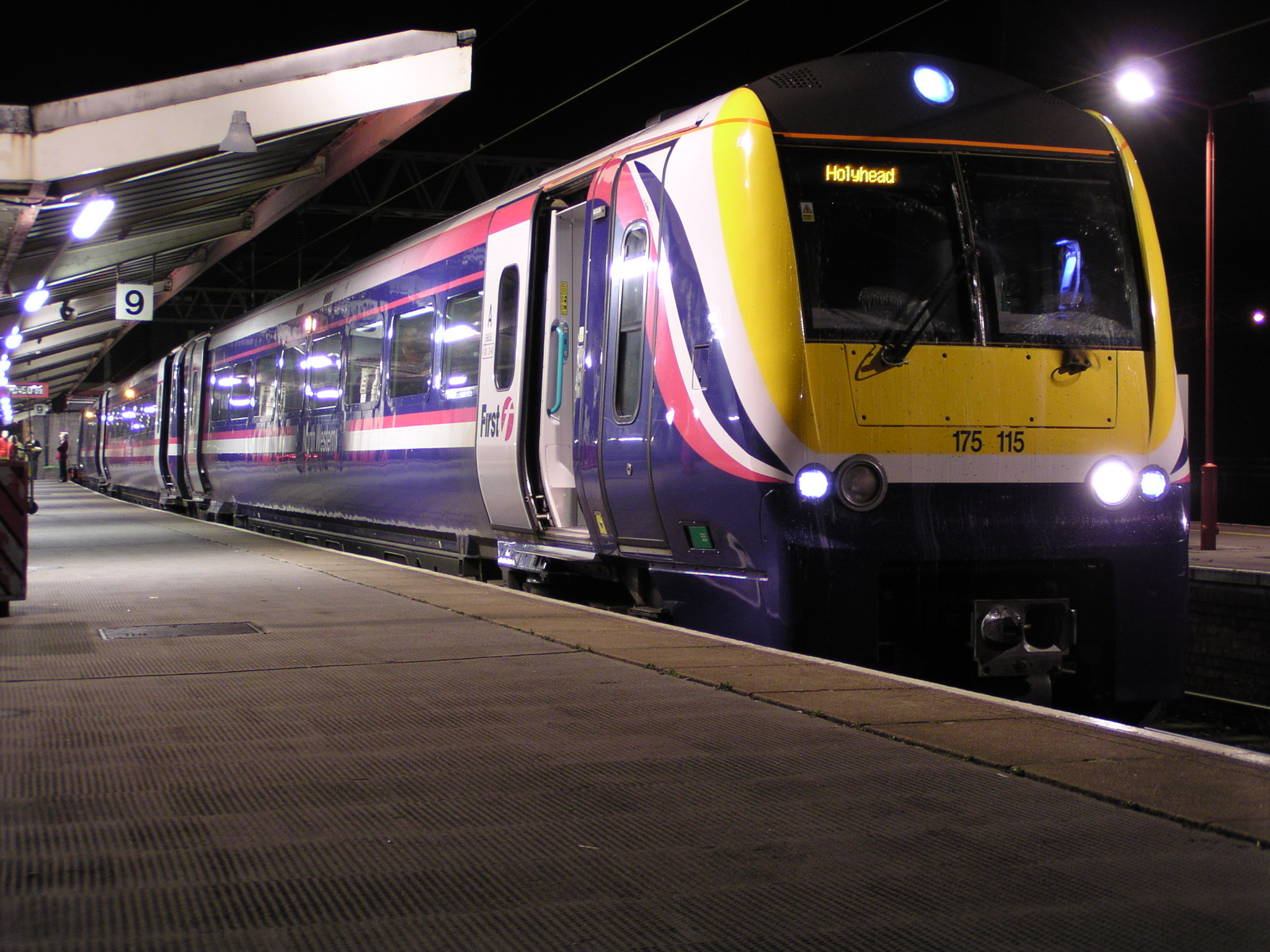 BR Class 175, no. 175115 at Crewe on 1st November 2003, with a late night service to Holyhead.